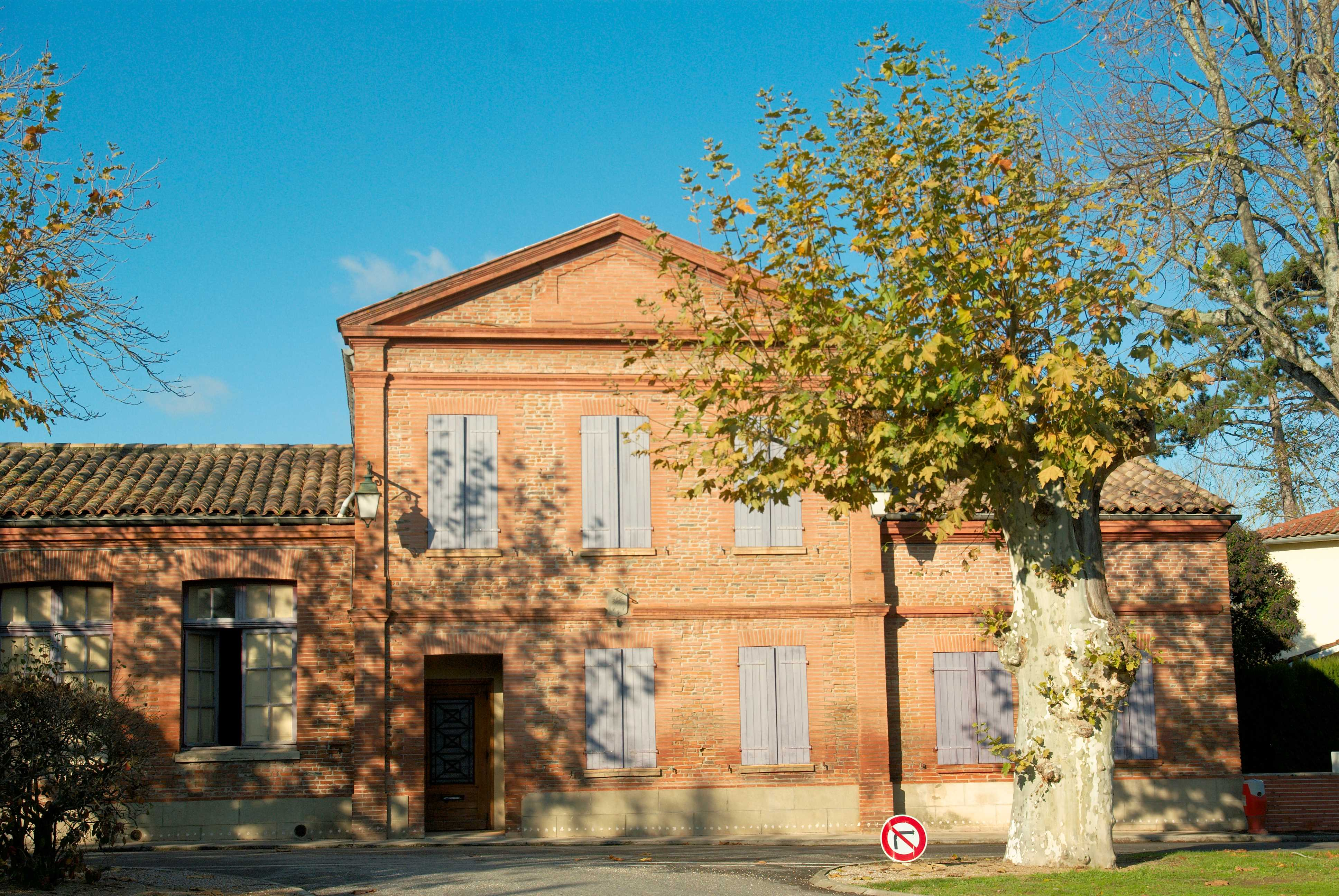 Old townhall of Auzeville-Tolosane.